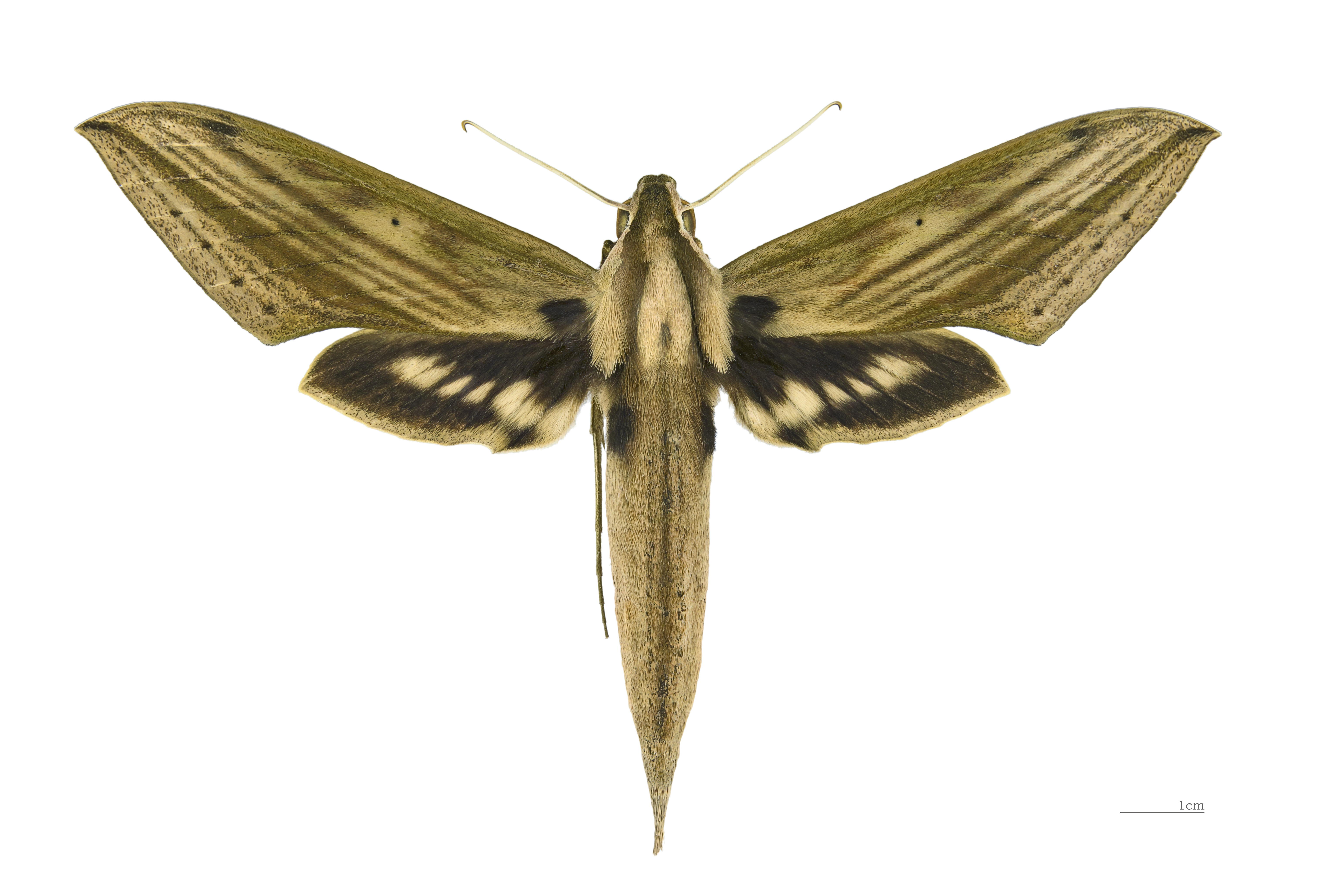 Xylophanes anubus - Dorsal side